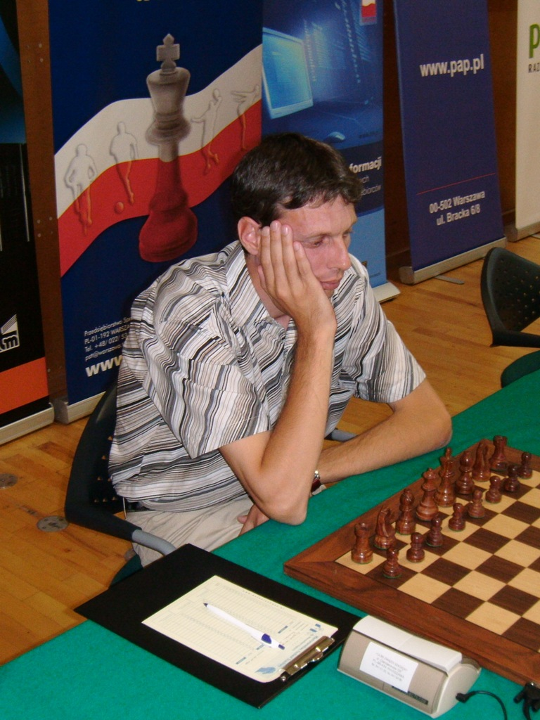 Grandmaster Julian Radulski playing in the Najdorf Memorial in Warsaw (Poland)